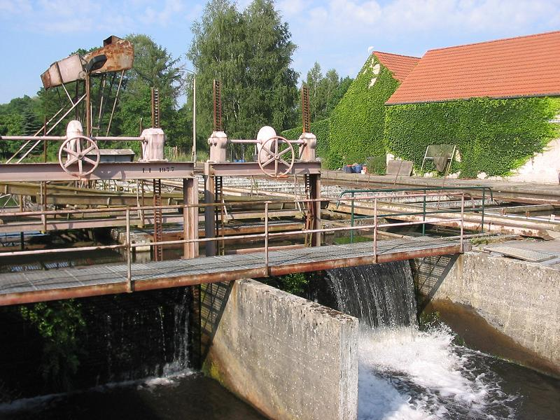 Watermill Komthurmühle at stream Plane nearby Dahnsdorf. The village Dahnsdorf is a part of the municipality Planetal in the district Potsdam Mittelmark, state Brandenburg, Germany.